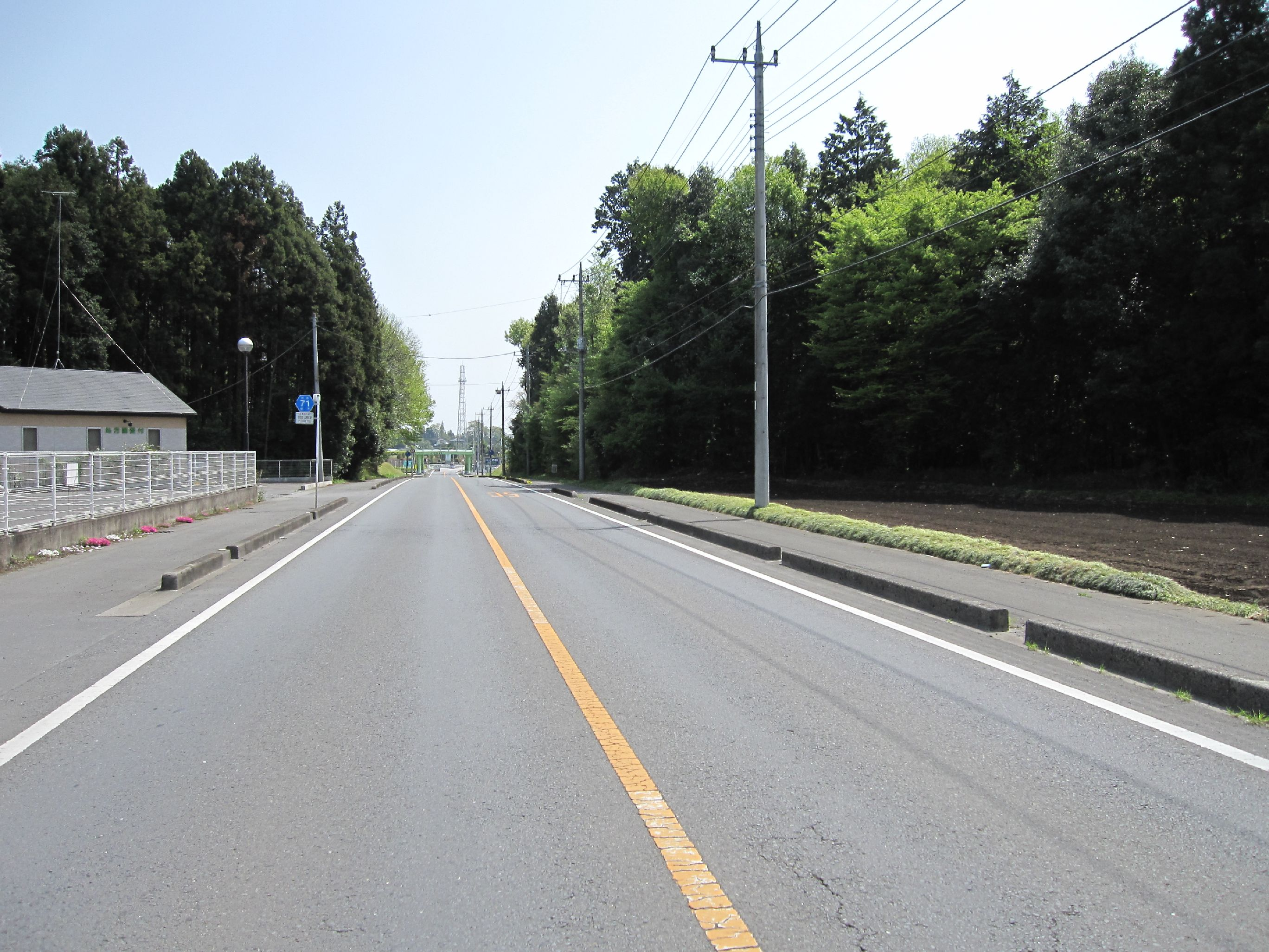 The Tochigi Prefectural Road Route 71 in Oyama, Kaminokawa Town